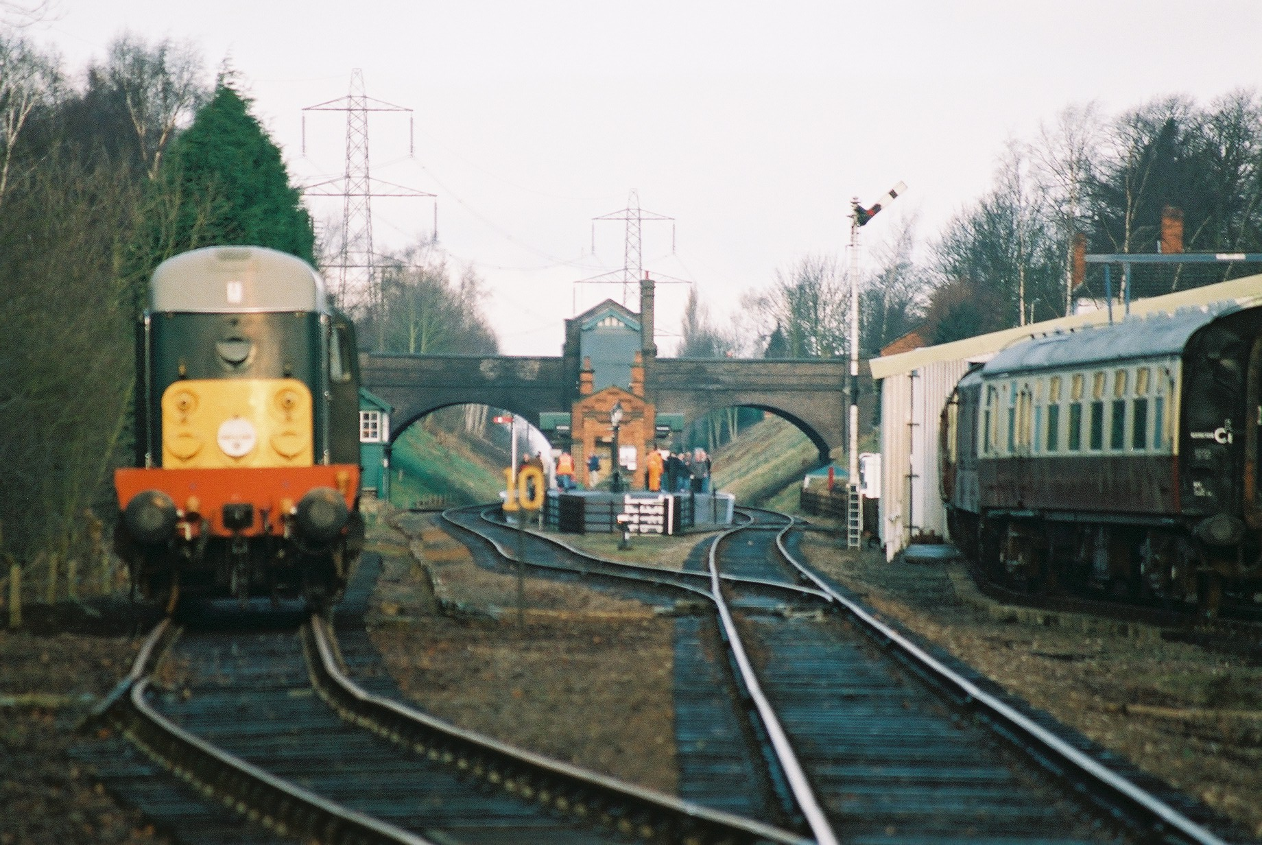 General view of Rothley Station, on the Great Central Railway, with a preserved class 20 locomotive stabled. Telephoto view of Rothley clearly showing the island platform layout and the end of the double track.